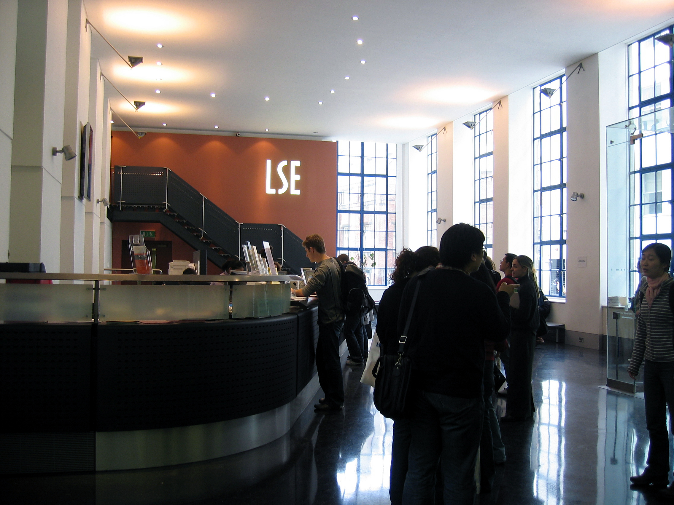 LSE-Reception